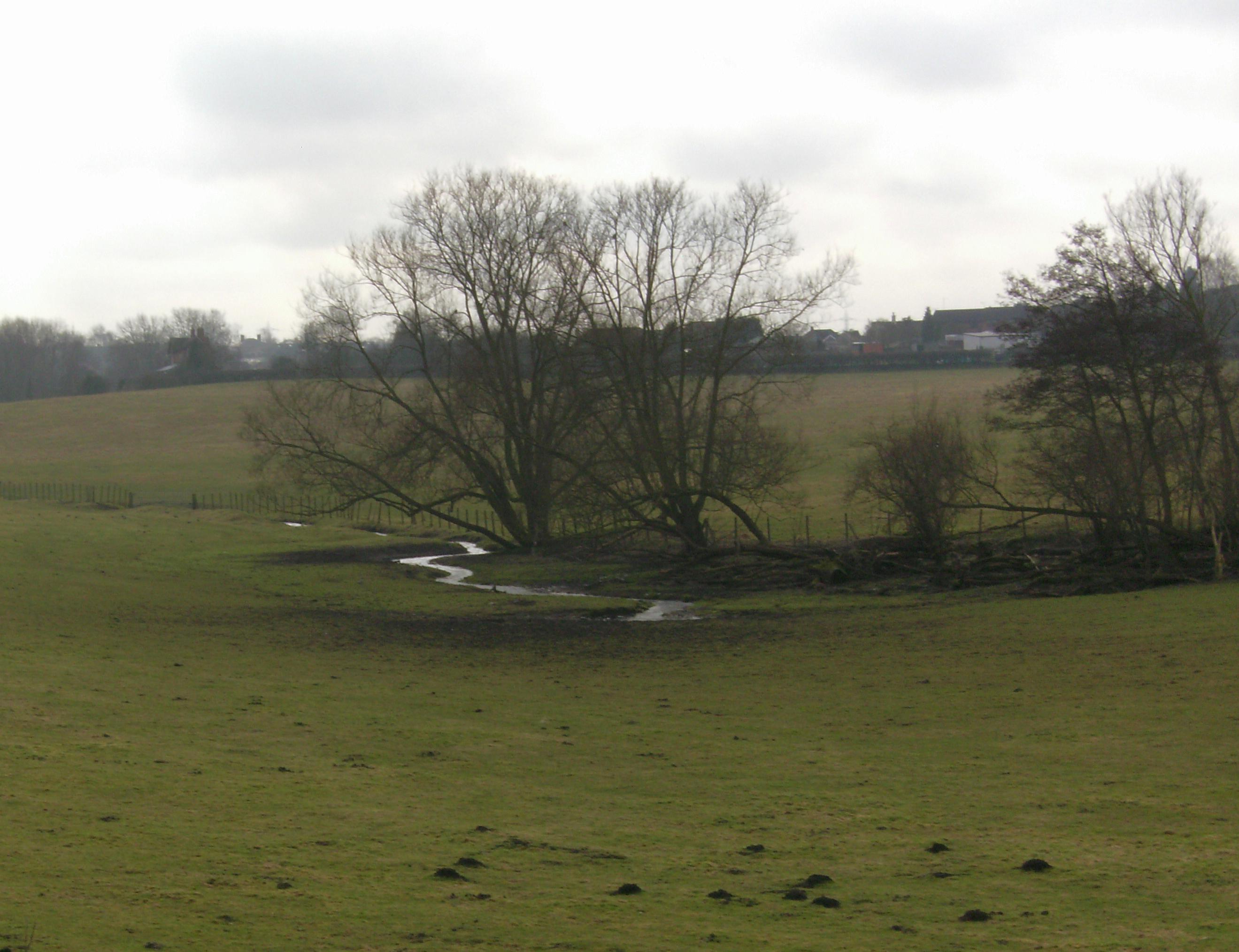 Merryhill Brook, near the Bratch, Wombourne, Staffordshire, UK.